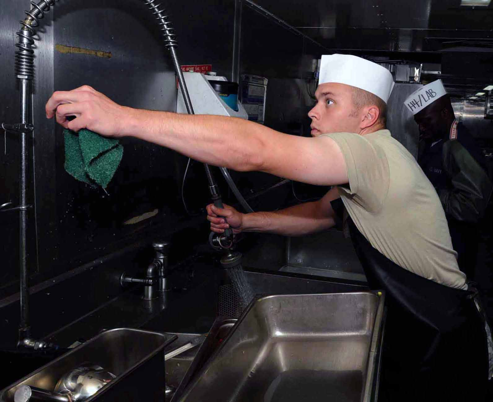 CARIBBEAN SEA (May 2, 2009) Army Cpl. Edmund Hollub of the 807th Medical Command volunteers in the kitchen on board the hospital ship USNS Comfort (T-AH 20). The Comfort is on a four month humanitarian and civic assistance mission to Latin America and the Caribbean. (U.S. Army photo by Sgt. 1st Class Brian Scott)